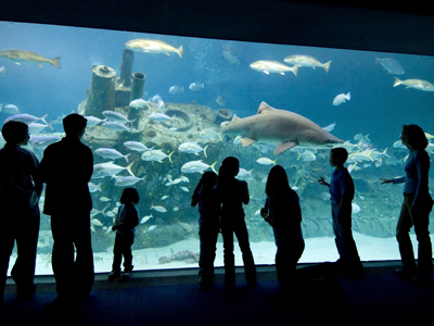 Live Dive educational program at the NC Aquarium at Pine Knoll Shores.